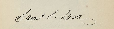 Samuel S. Cox, congressman from Zanesville, Ohio. From (1859) McClees' gallery of photographic portraits of the senators, representatives & delegates to the thirty-fifth Congress, Washington: McClees and Beck, p. 204 .